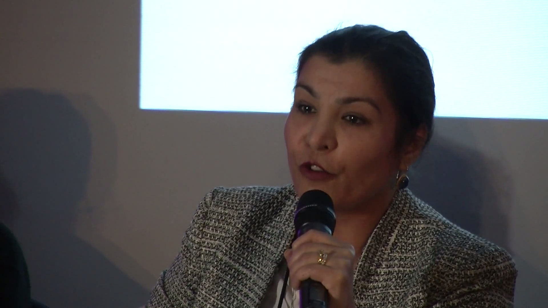 Horia Mosadiq speaking about “Religious Fundamentalism and its Impact on Women and Girls in Afghanistan”. 11-12 October International Conference on the Religious-Right, Secularism and Civil Rights in London, a.k.a. Secular Conference 2014.